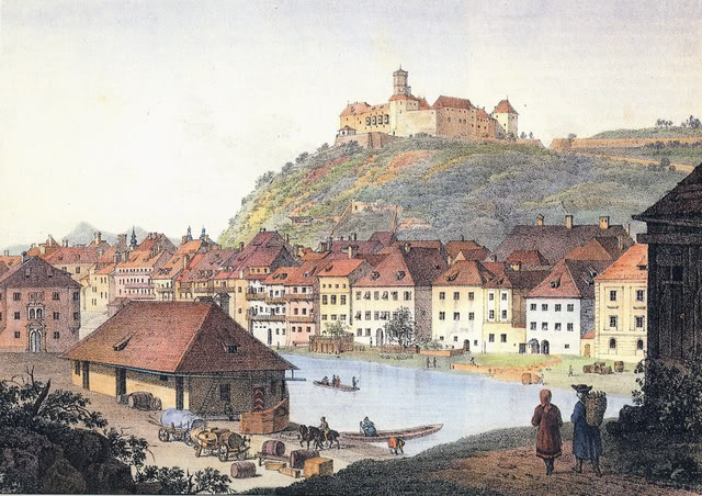 Pristanišče na Bregu in Ljubljana on a 1765 painting.